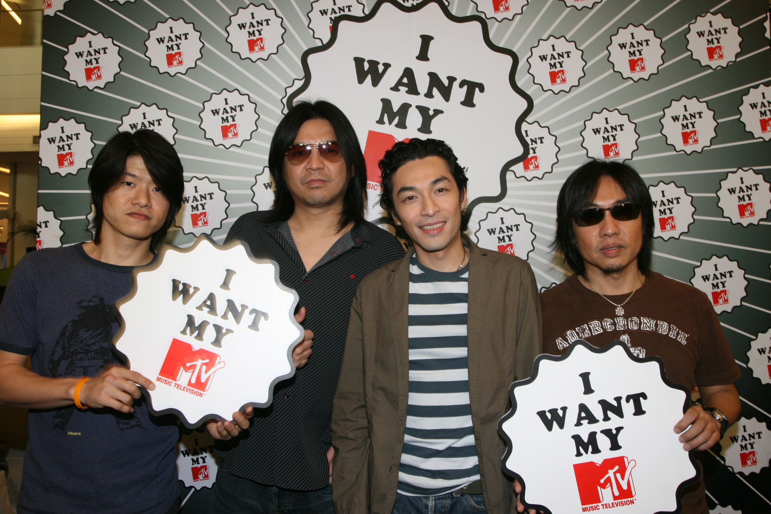 Blackhead